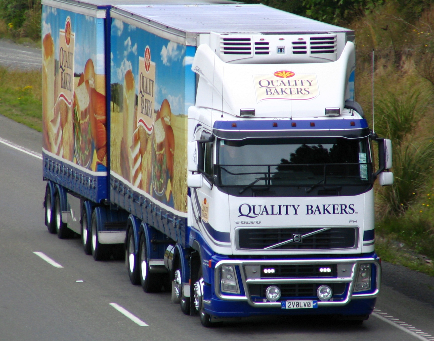 A Quality Bakers Volvo FH truck northbound on State Highway 1 near Dunedin in New Zealand